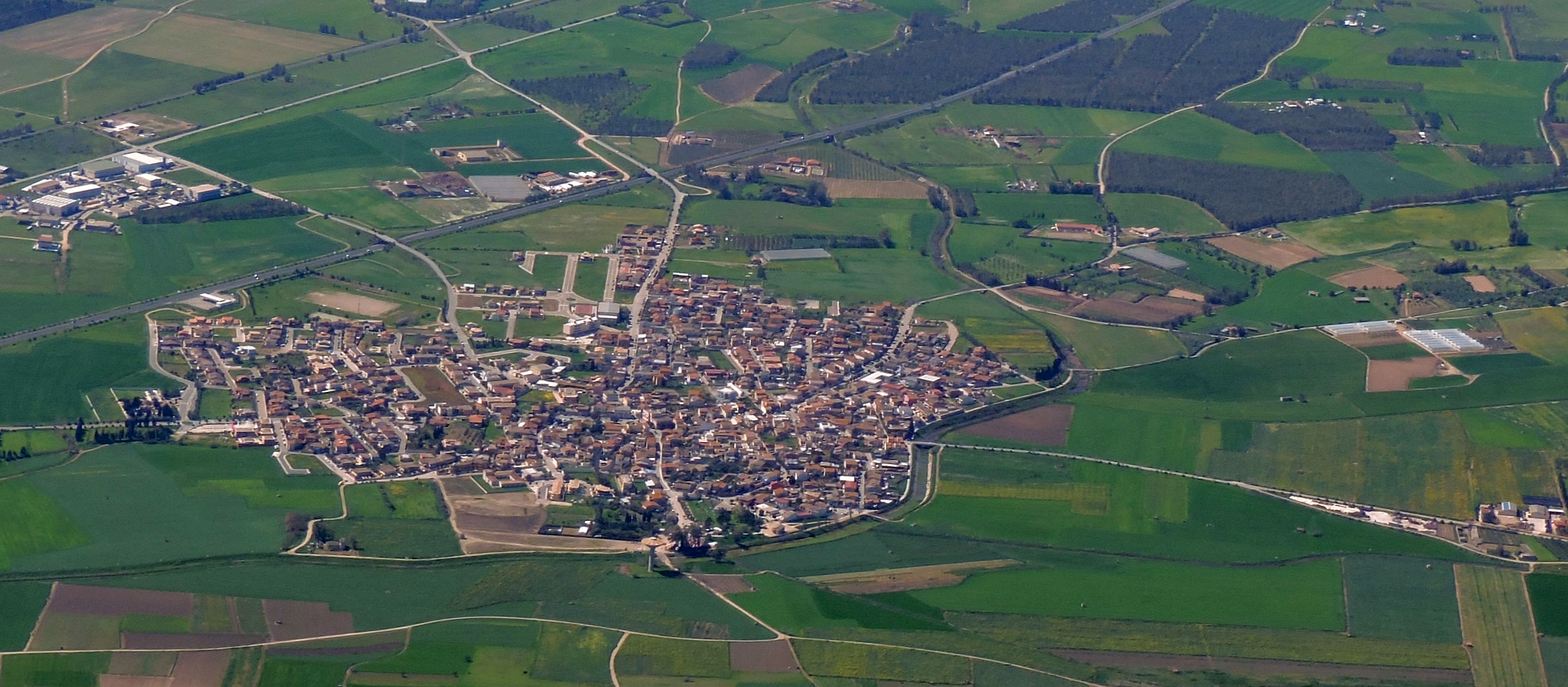 Villaspeciosa aerial view (Sardinia, Italy)